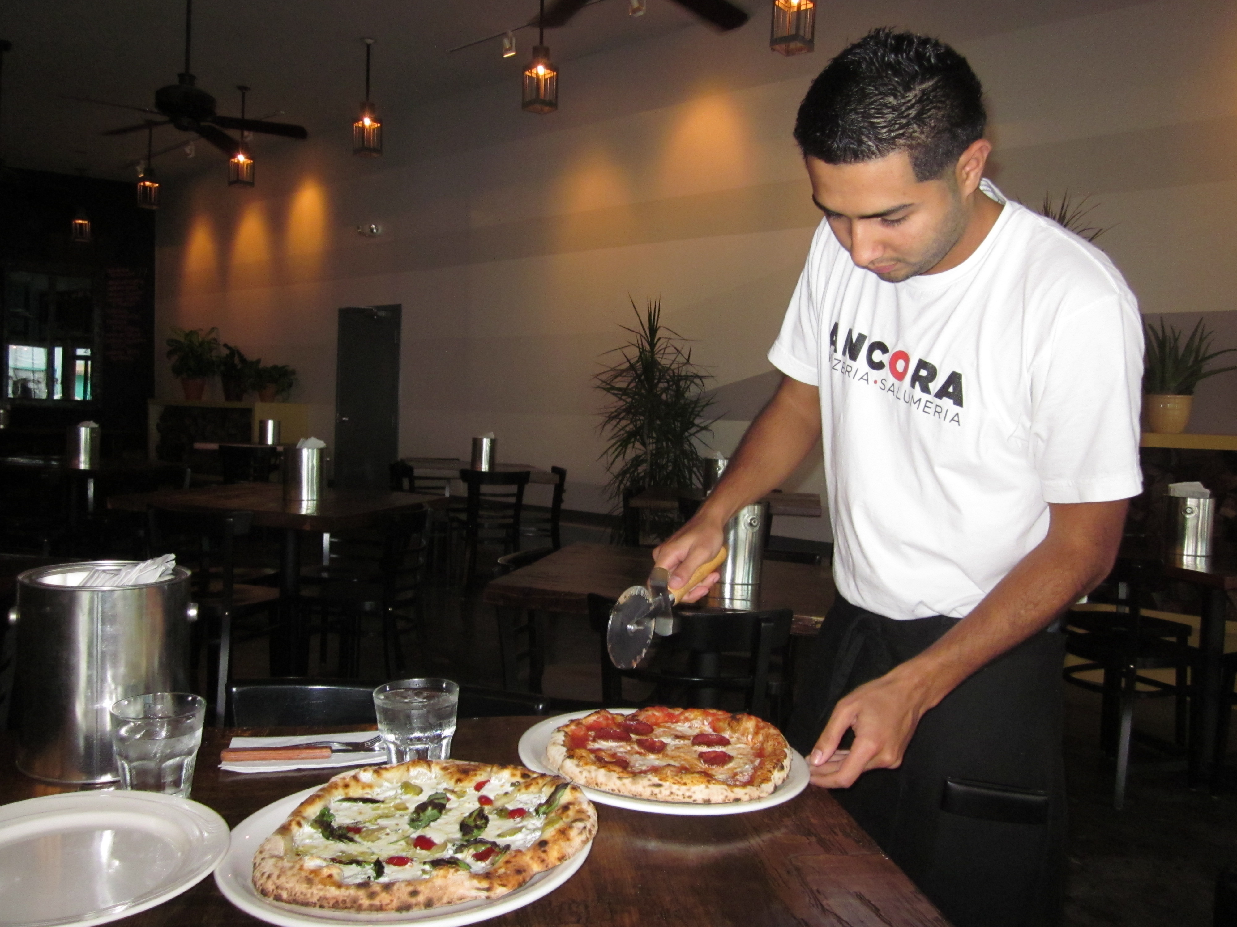 Ancora Pizzaria, Freret Street, Uptown New Orleans. Waiter slicing pizzas.